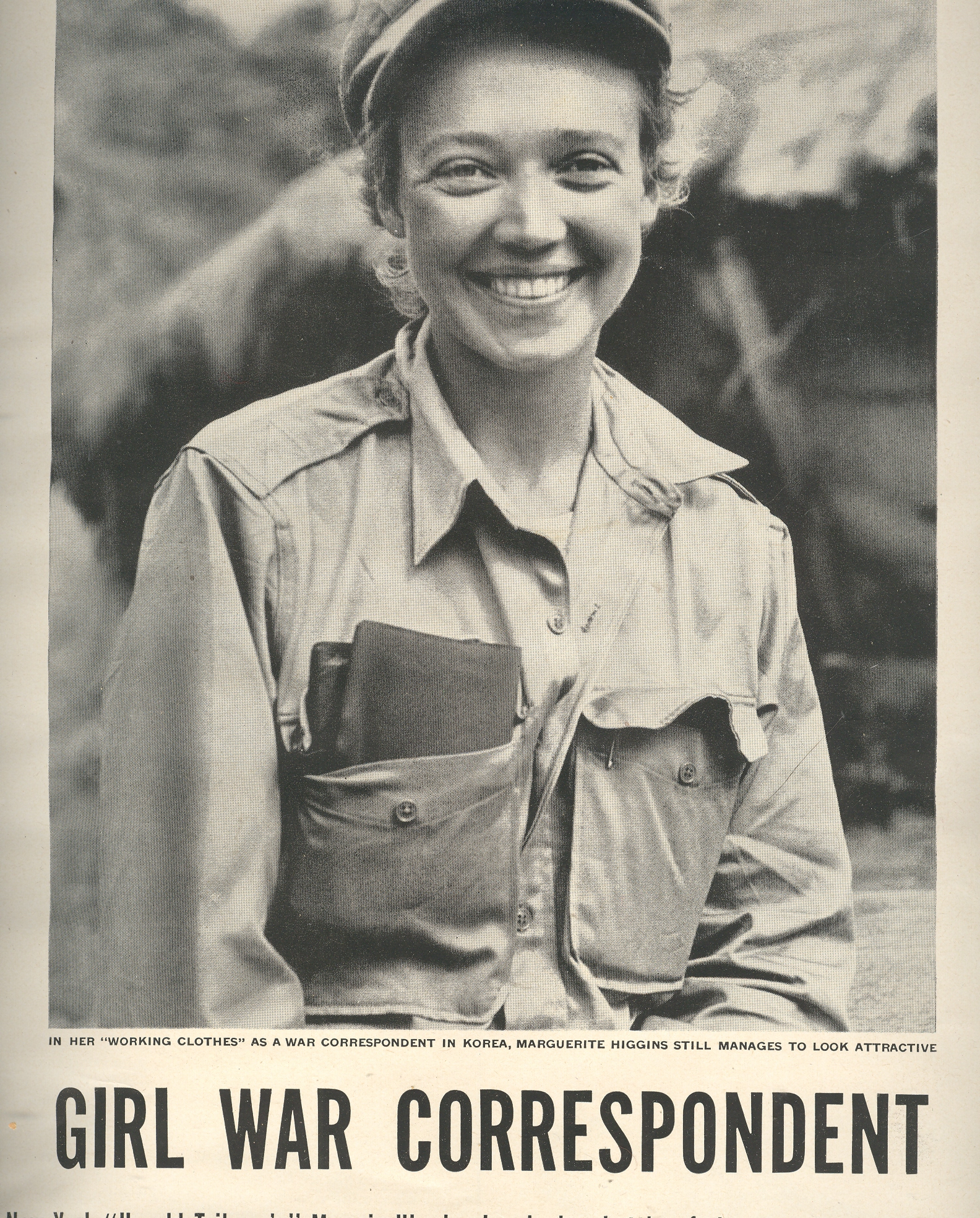 Marguerite Higgins as she appeared in the Life Magazine article "Girl War Correspondent"